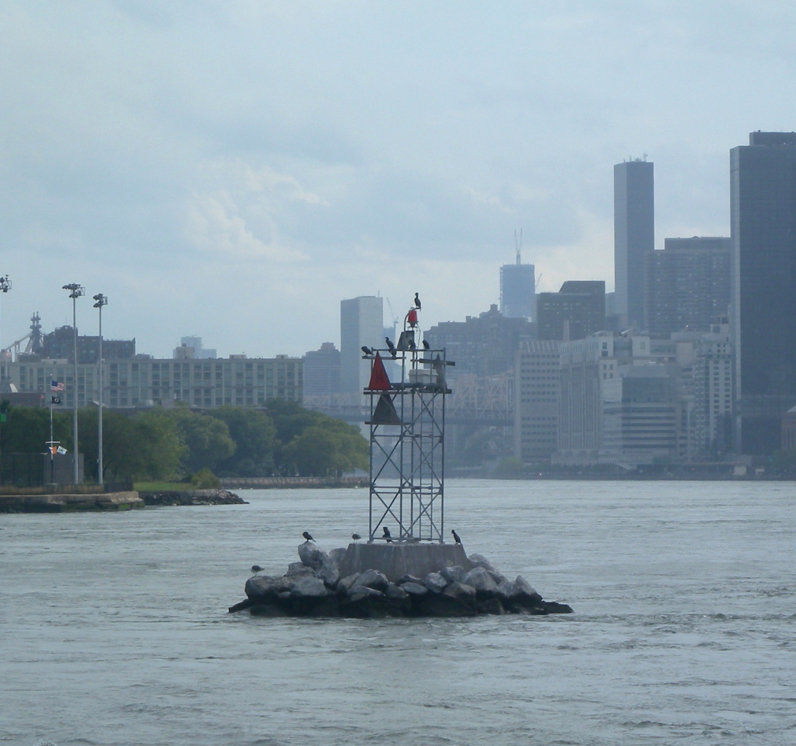 Looking southwest from Wards Island at a rock with light tower on a cloudy afternoon.